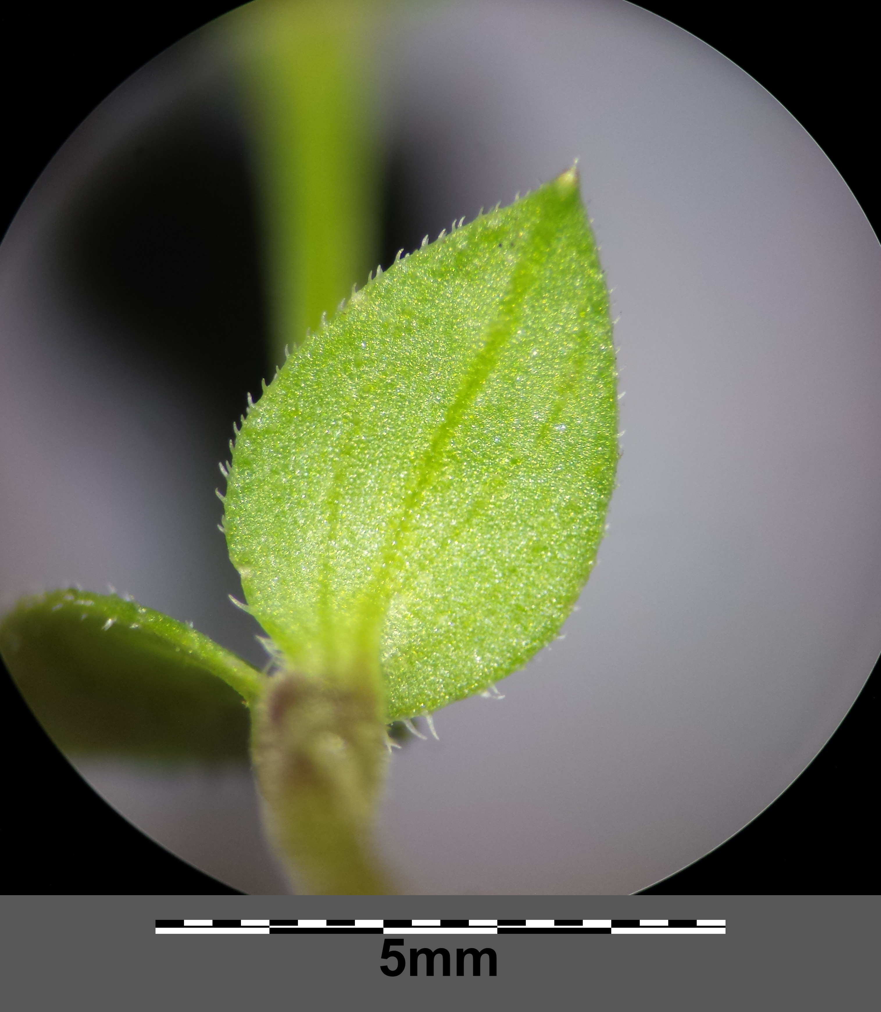 Leaf Taxonym: Arenaria serpyllifolia ss Fischer et al. EfÖLS 2008 ISBN 978-3-85474-187-9 Location: Neue Donau, Vienna-Floridsdorf - ca. 160 m a.s.l. Habitat: dry slope